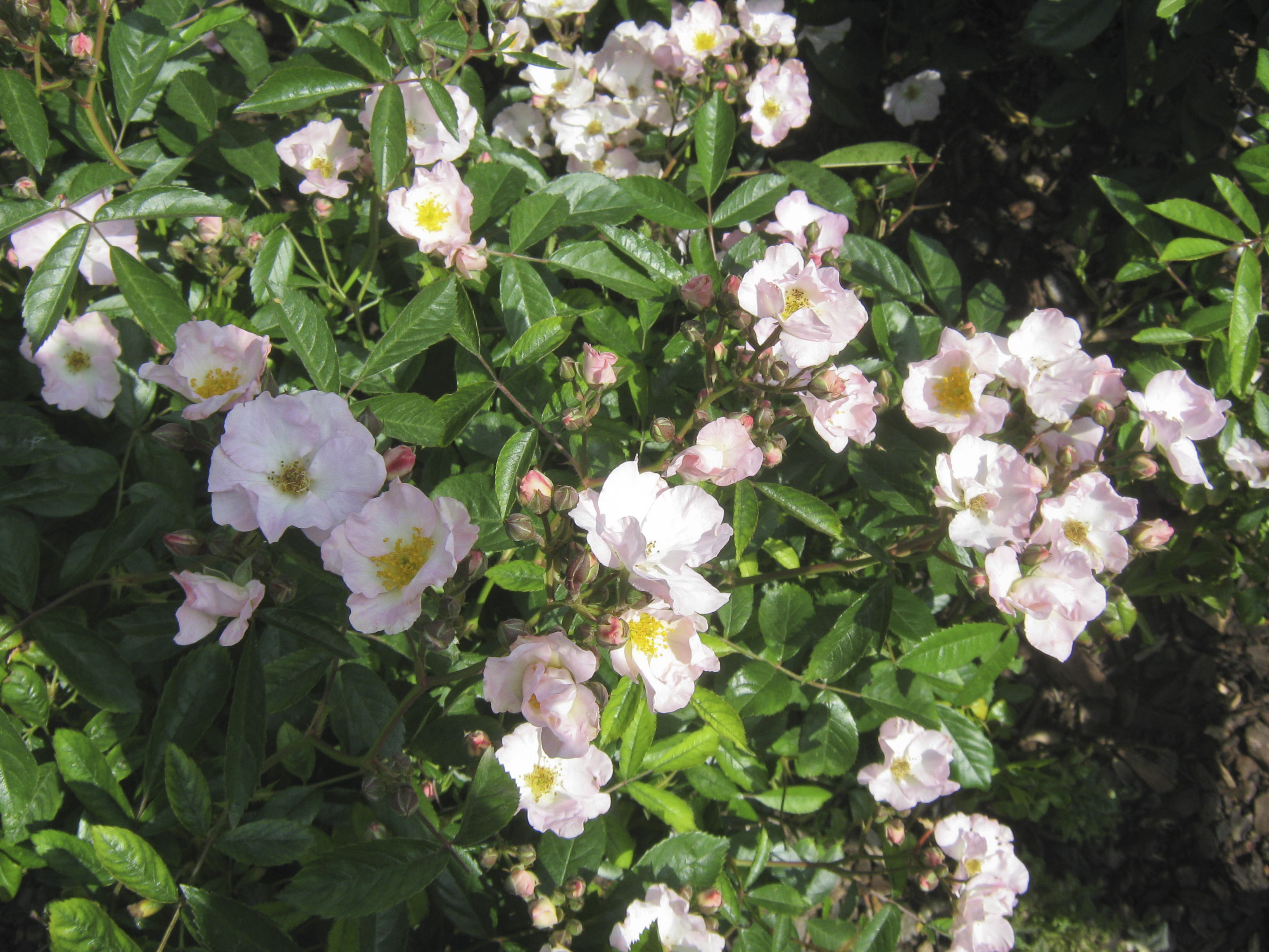 Rose 'Honeyflow' by Riethmuller 1957; photographed in the Victoria State Rose Garden, Werribee Park, Victoria